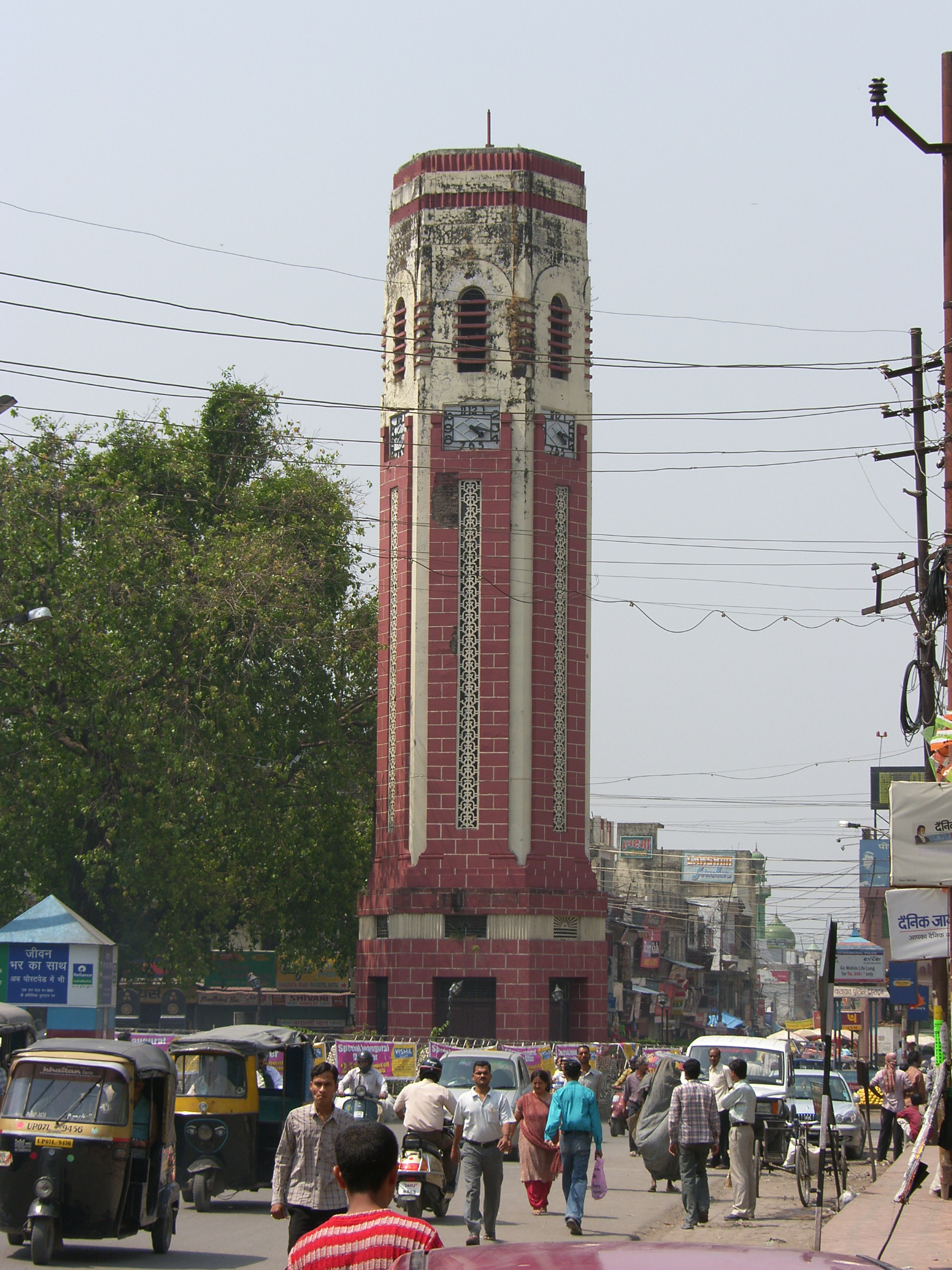 Dehradun, India